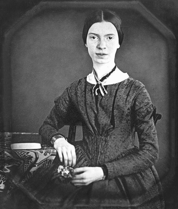 Daguerreotype of the poet Emily Dickinson, taken circa 1848. (Original is scratched.) From the Todd-Bingham Picture Collection and Family Papers, Yale University Manuscripts & Archives Digital Images Database, Yale University, New Haven, Connecticut.